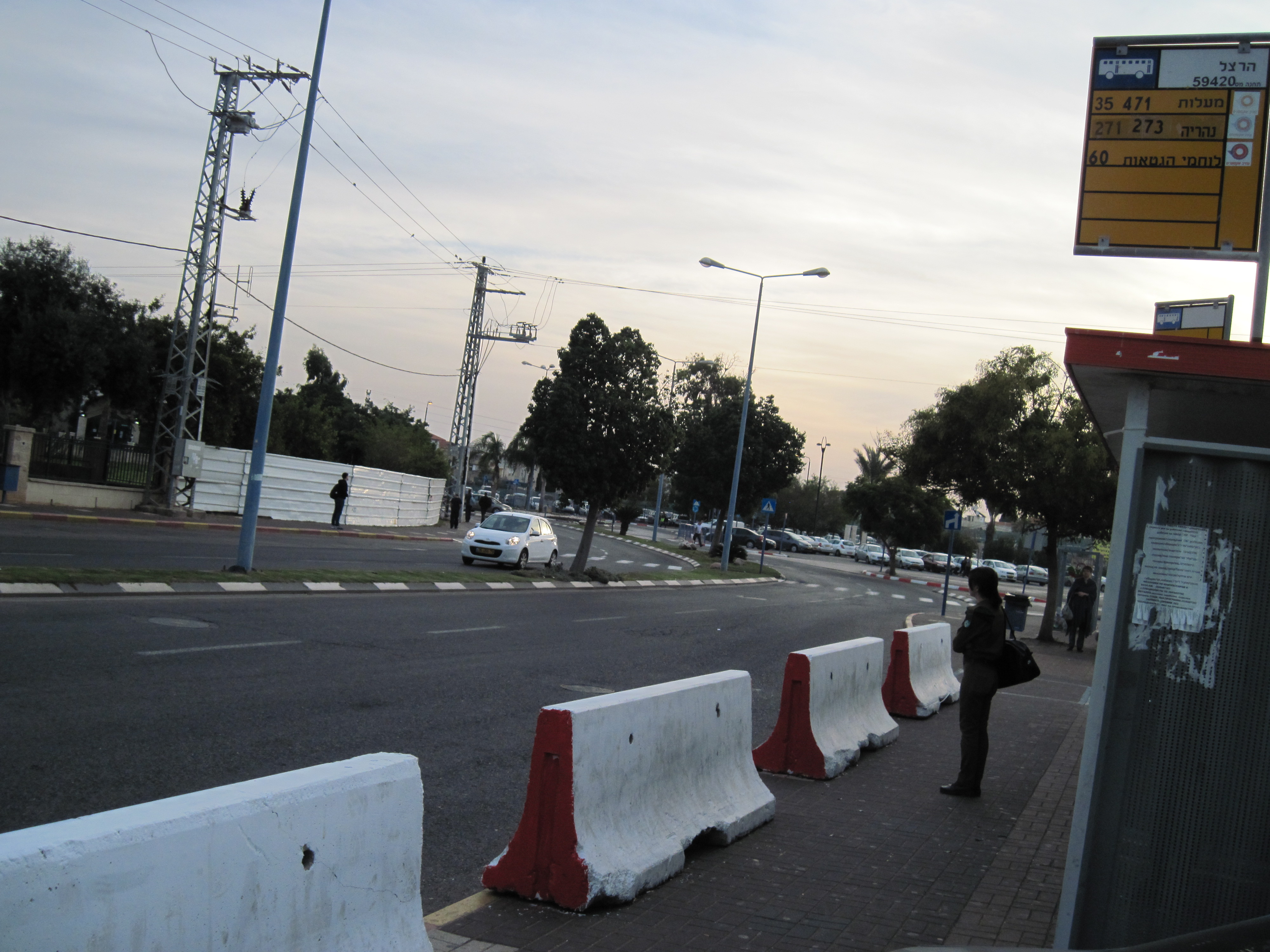 Jeresy barriers which were put agianst terror car attacks, busstop near railway station, Acre, Israel, 2014